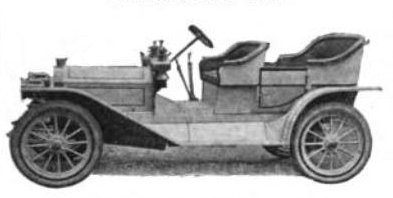 The image of a 1909 Crawford Model H Light Touring Car from an advertisement on page 367 of the cited journal Title Automobile trade journal, Volume 13 Publisher Chilton Company, 1909 Original from the University of Michigan